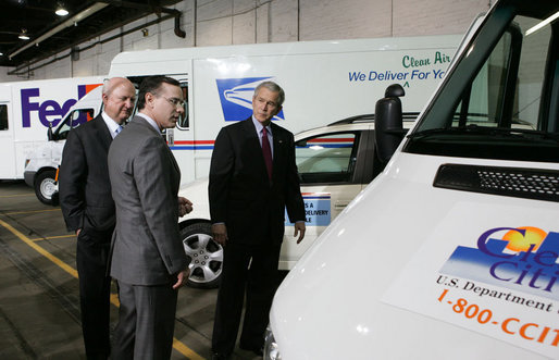 President George W. Bush and Secretary of Energy Sam Bodman listen to Mark Chernoby as the Vice President of Advance Vehicle Engineering at DaimlerChrysler describes the FedEx Pilot Program Plug-in Hybrid Sprinter during the President's visit 2007-03-27, to the U.S. Postal Service Vehicle Maintenance Facility in Washington, D.C.